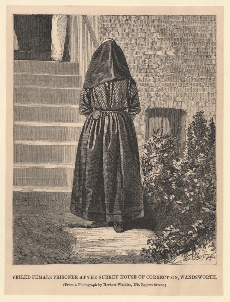 Wood engraving showing a woman at the Surrey House of Correction, Wandsworth. Shelfmark: Crime 9 (66) "Engraving from Mayhew and Binny's Criminal Prisons of London, 1862 (source: University of St. Andrews web site)"